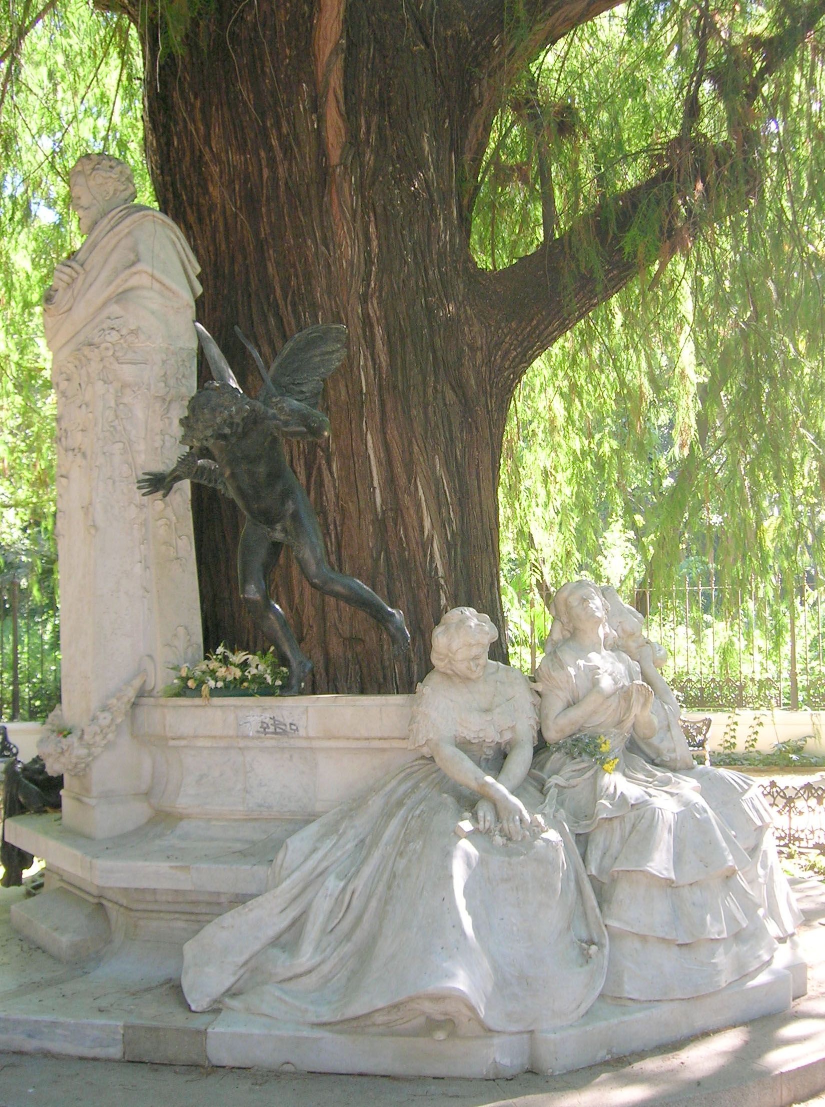 Romantic monument to local poet Gustavo Adolfo Bécquer in Parque de María Luisa, Seville, Spain.